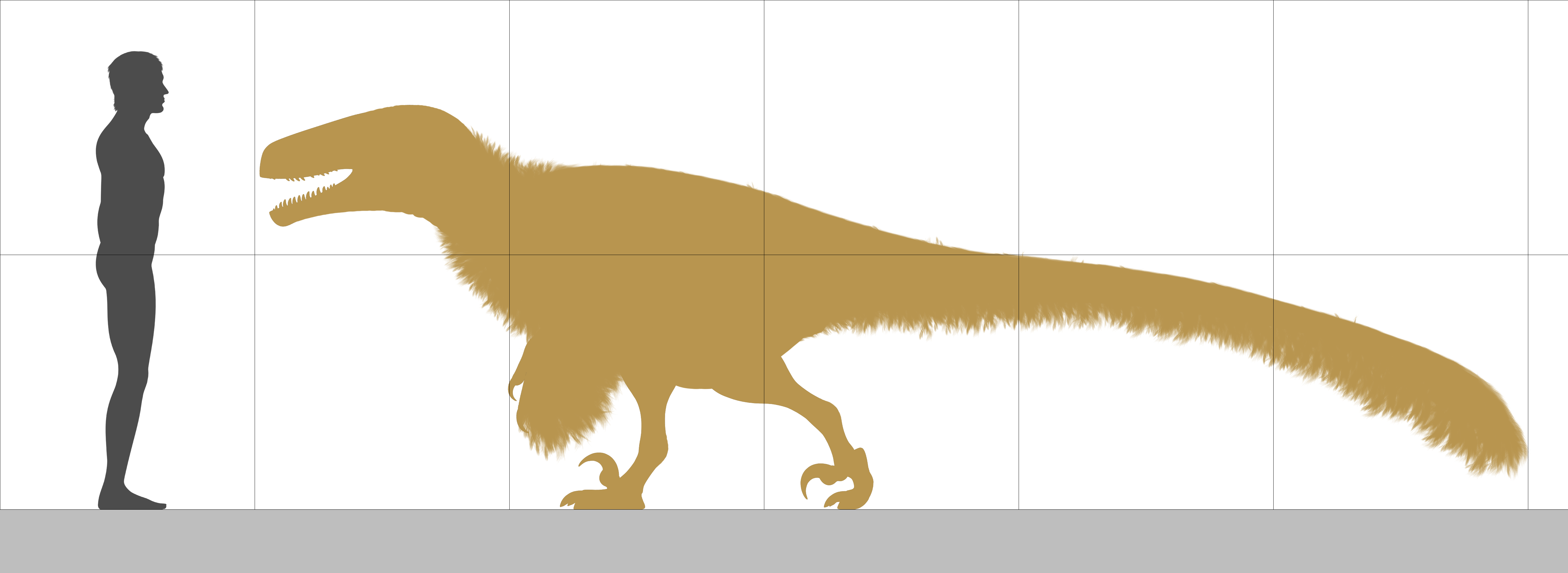 Larger estimate of the giant dromaeosaurid Achillobator: 6 meters long, compared to a 1.8 m tall man. Following Holtz 2012[1], nevertheless, the original description estimates Achillobator being 3 times the size of Deinonychus. Although the description is incomplete.[2]